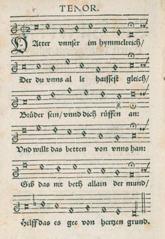 Version of Vater unser im Himmelreich